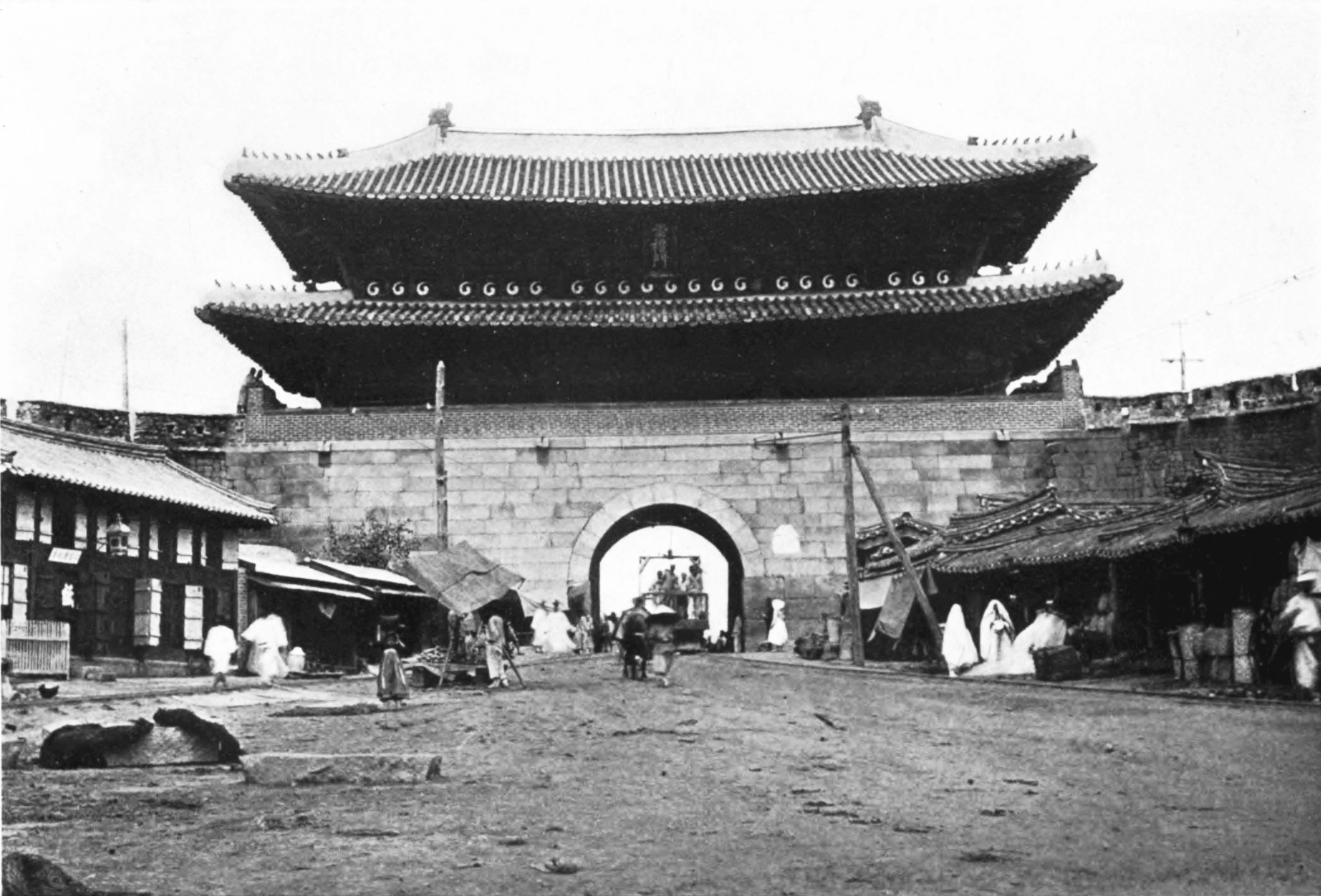 South Gate, Seoul, c.1900; p.559. The passing of Korea (book)